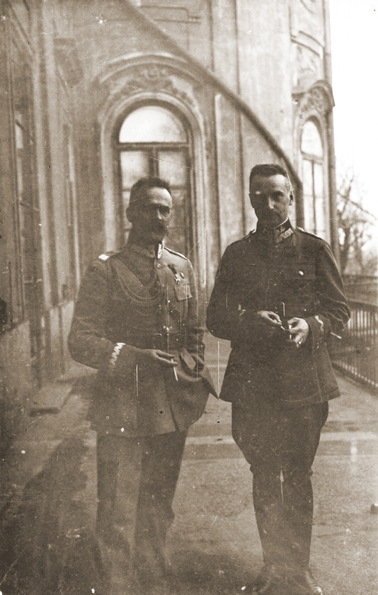 Marshal Józef Piłsudski with general Kazimierz Sosnkowski.